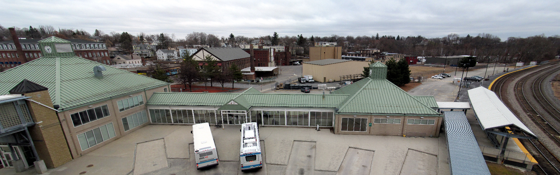 The bus bays at Fitchburg Intermodal Transportation Center viewed from the garage roof